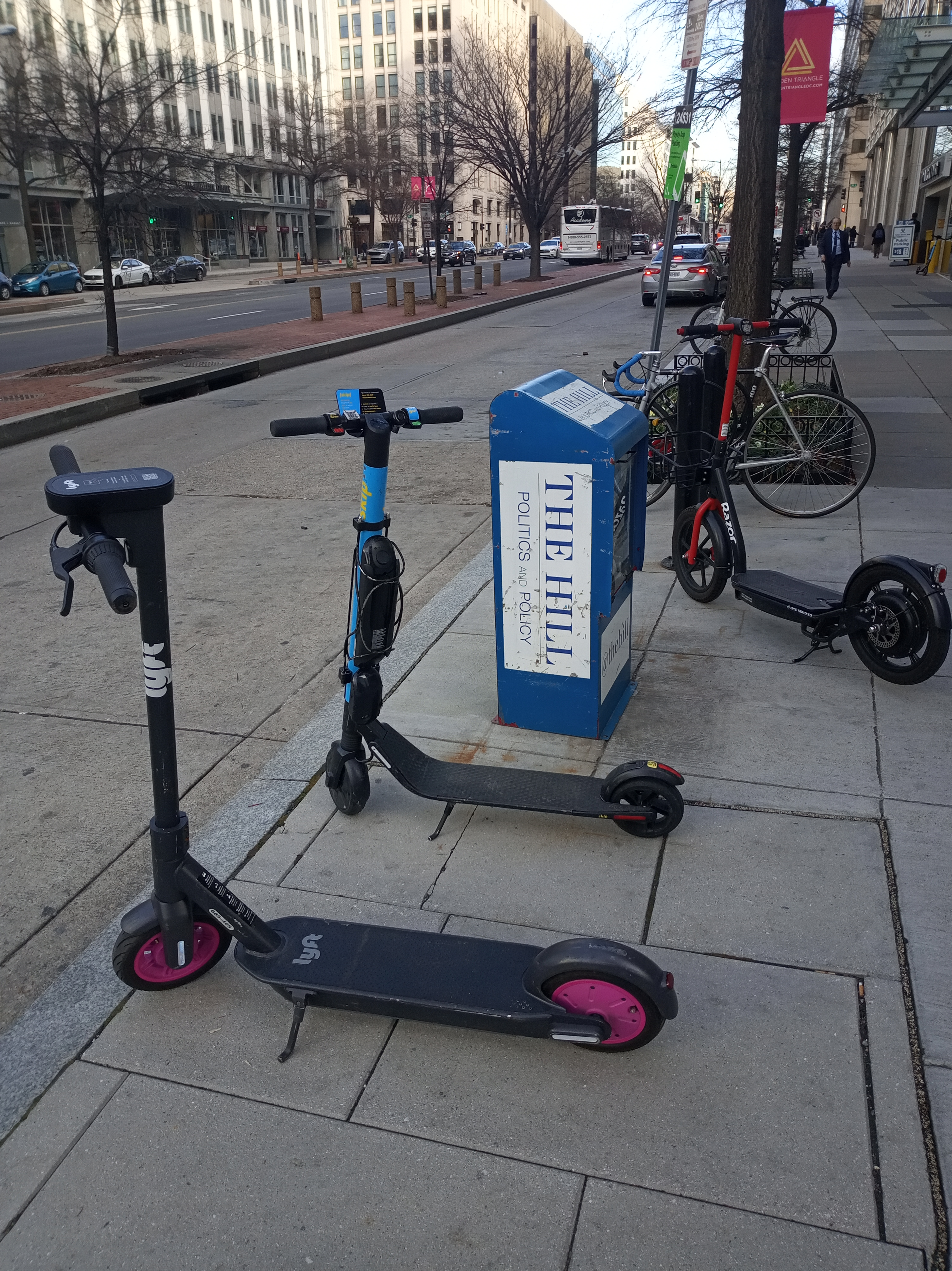 A quintessential scene on K Street in the Golden Triangle neighborhood of Washington DC, with dockless e-scooters of various brands scattered around a vending box from which passersby may acquire a free printout of a political blog called The Hill.